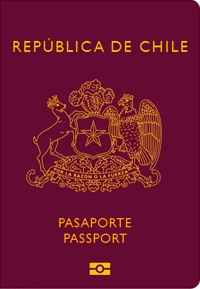 Chilean Biometric Passport Cover